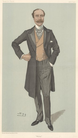 Caricature of Mr EW Beckett MP. Caption read "Whitby".